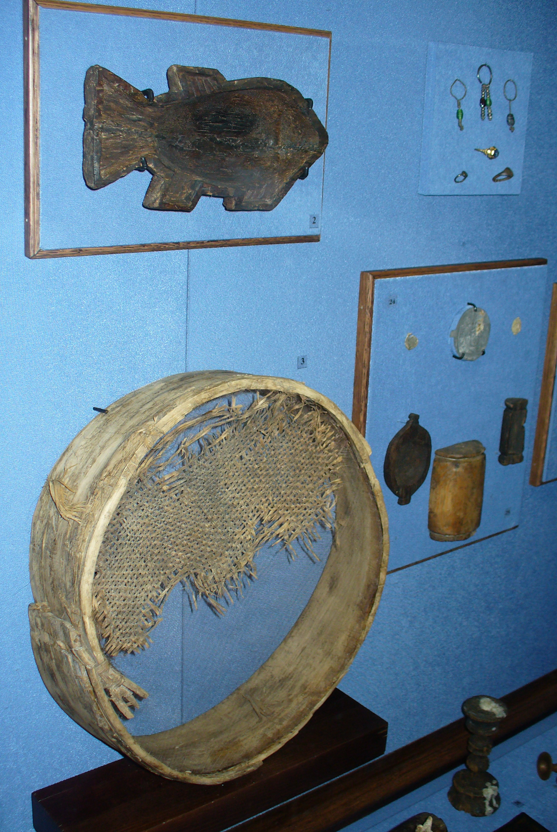 Wooden gingerbread mold, sieve, jewellery decorations, trade seals, seal's cases. Archaeological artefacts from Mangazeya, 1601-1672.